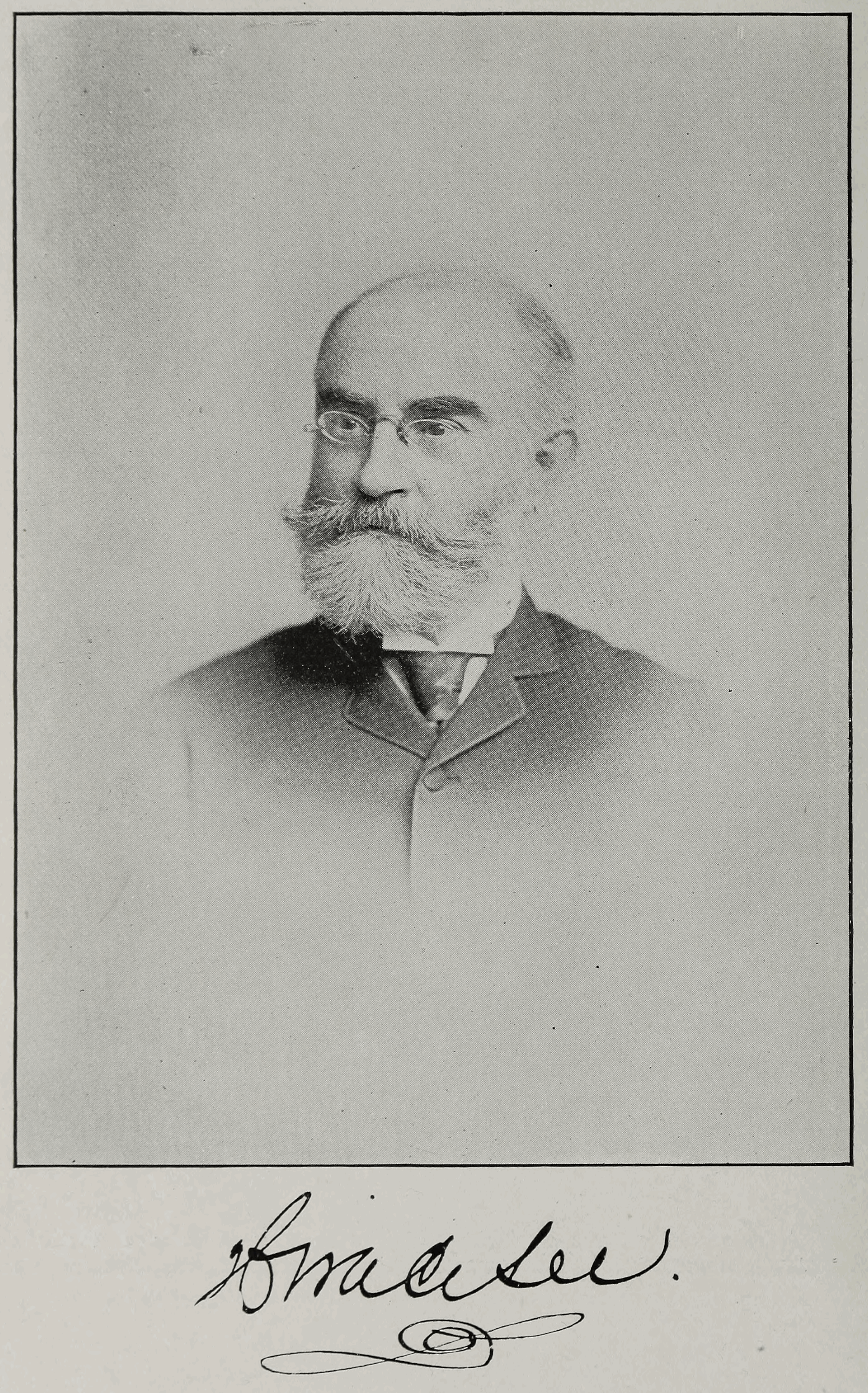 Cassier's Magazine of July 1892 had an article on page 157-179, written by William H. Wiley and titled Shipbuilding in America. It was accompanied by a number of illustrations, including this on page 178, portraying the engineer Horace See, chief draughtsman of Cramp and Sons shipbuilding.